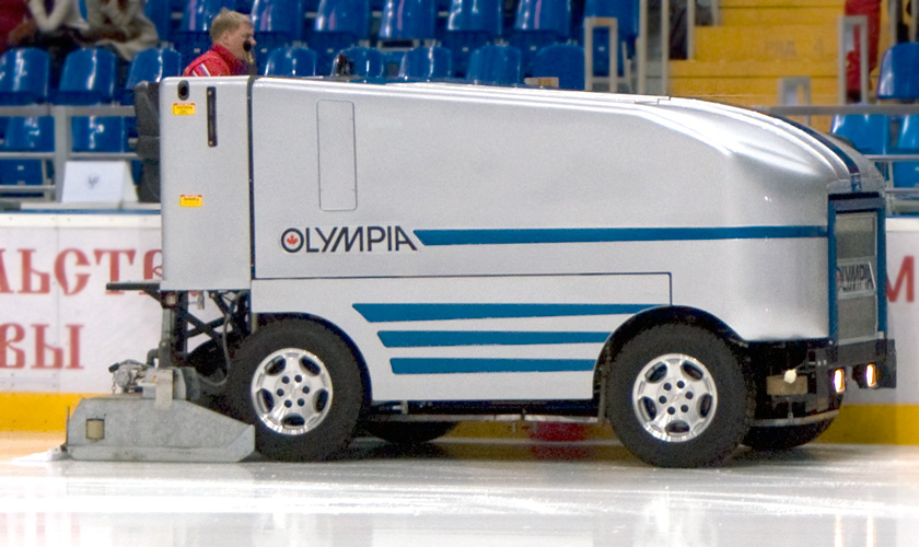 Ice cleaning during the Cup of Russia figure skating competition.